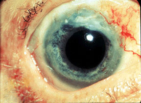 Photo showing the sclerokeratitis associated with Wegener's granulomatosis